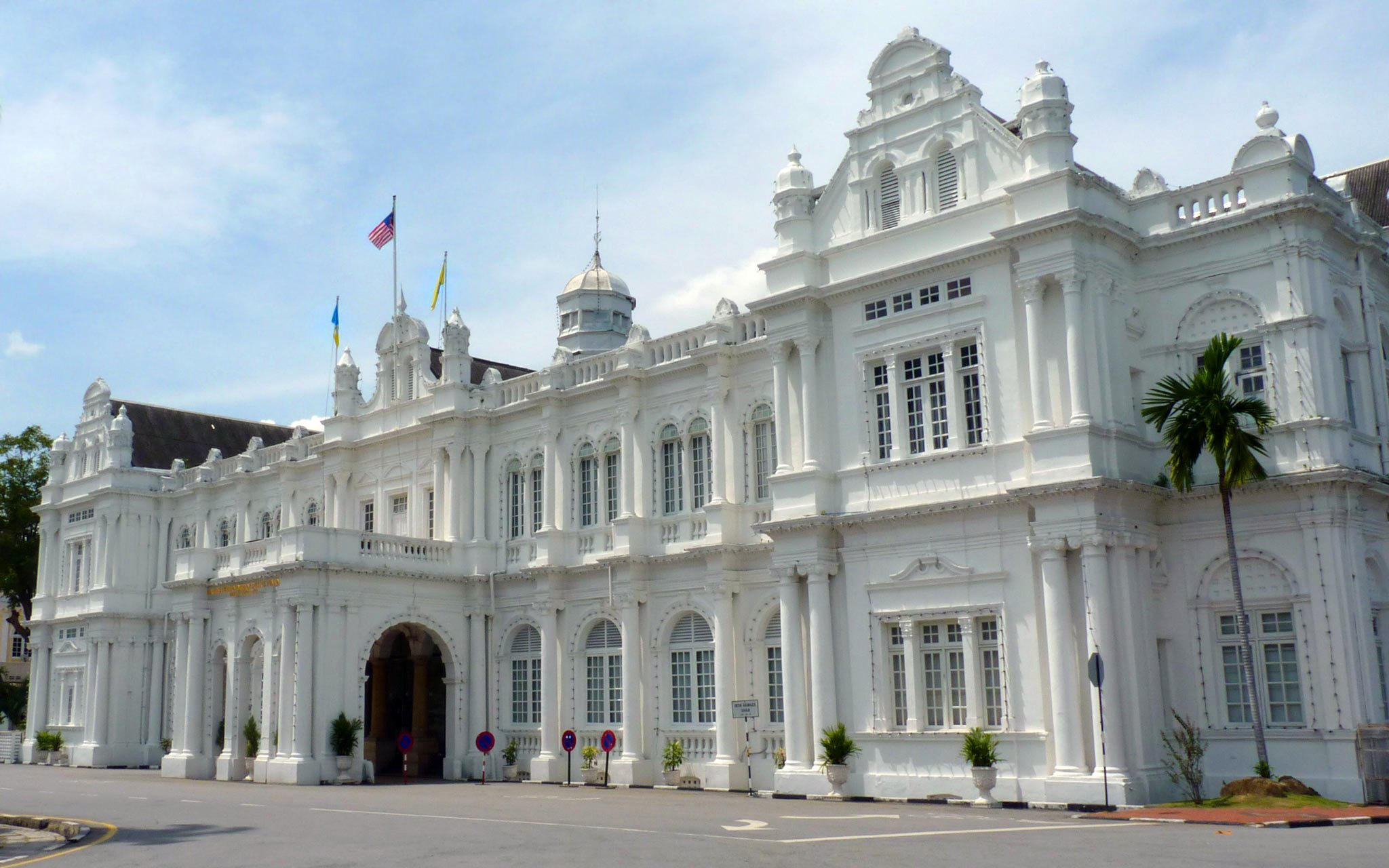 Penang City Hall (Dewan Bandaraya Pulau Pinang) in George Town, Penang, Malaysia.